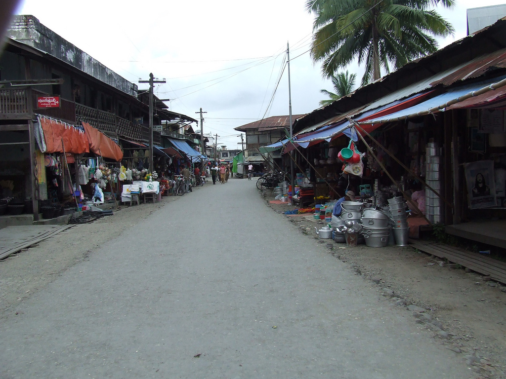 Kalaymyo, Burma